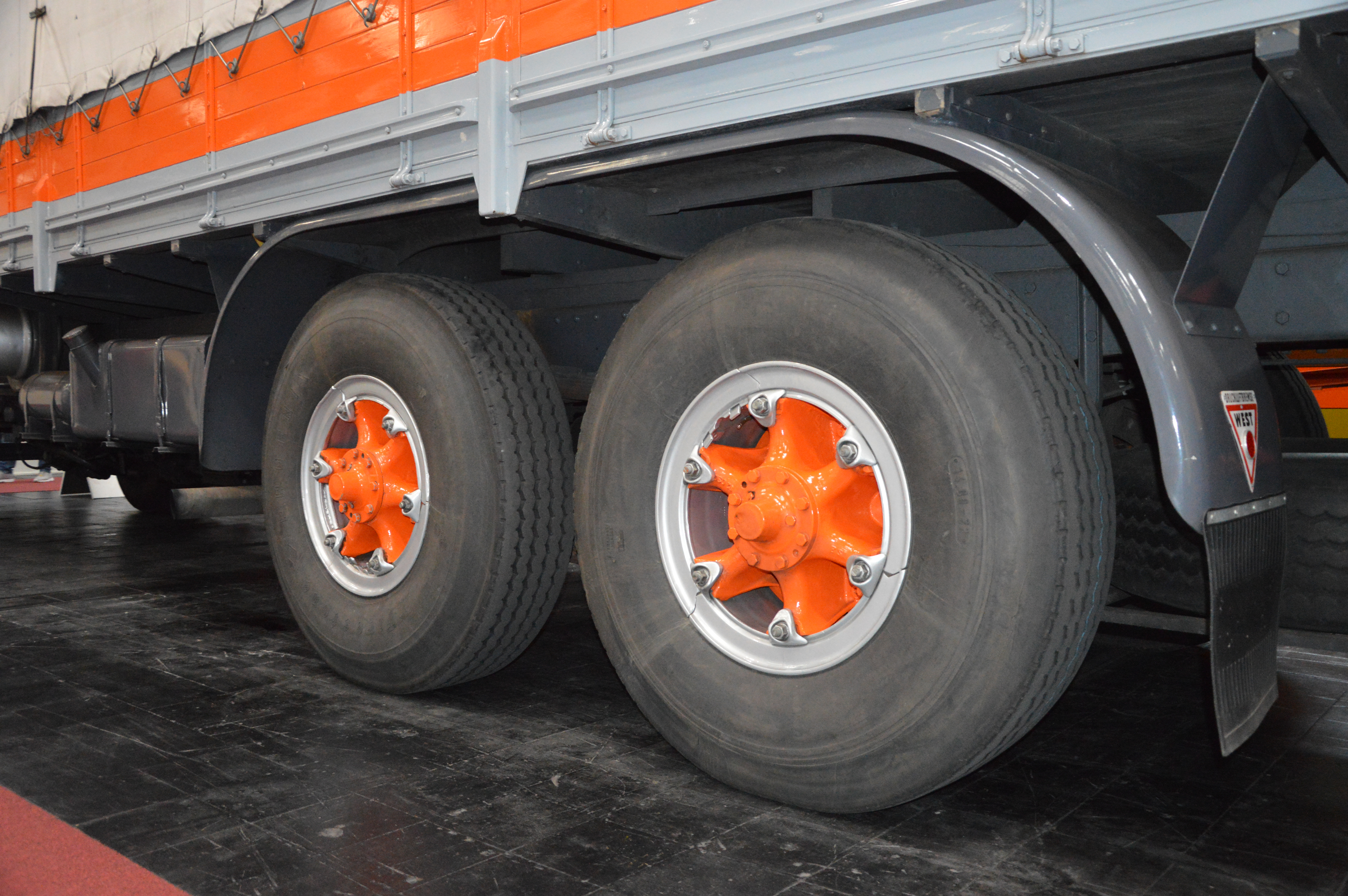 Trilex wheels on a Büssing truck 12000. Built 1953.